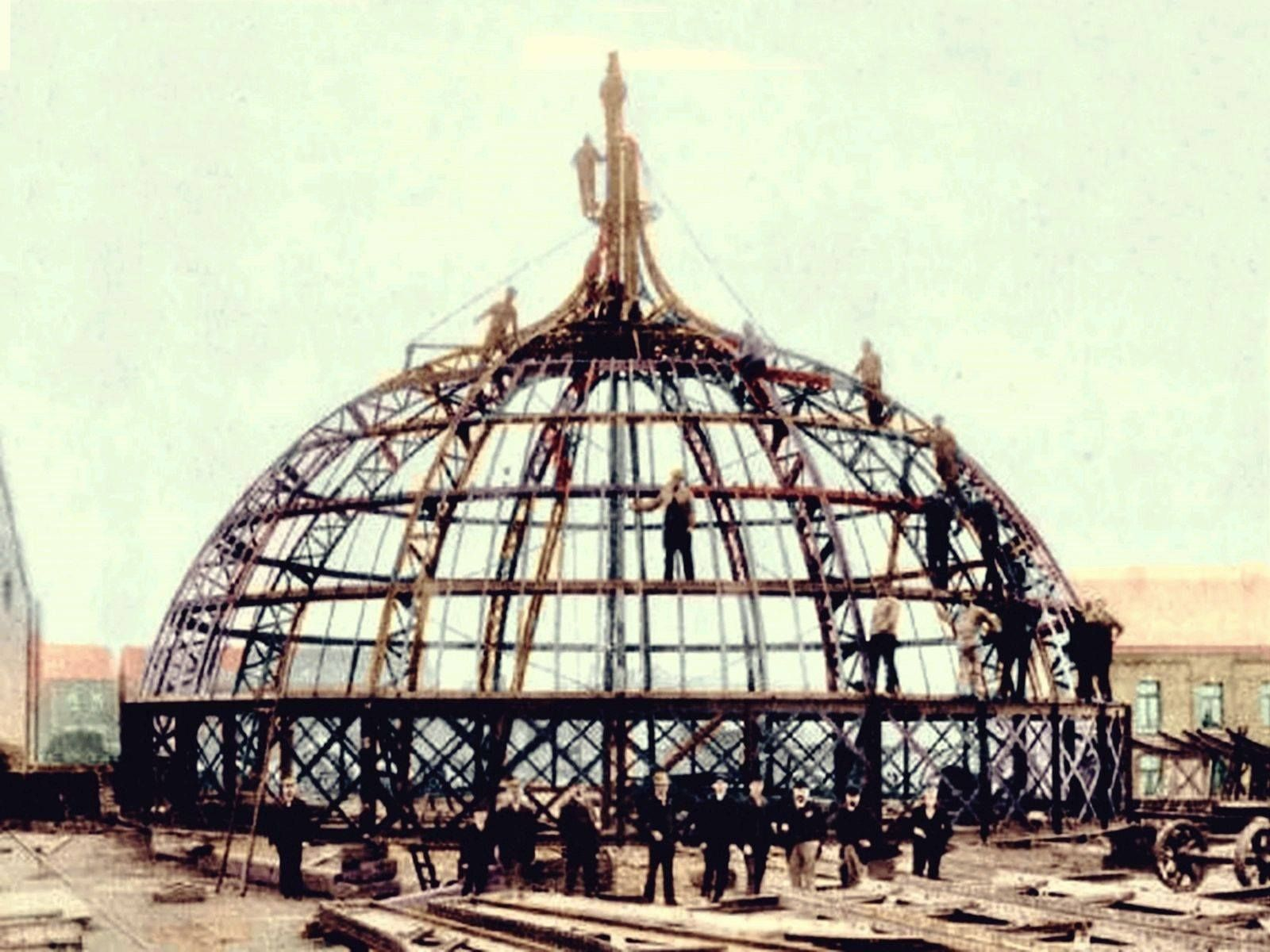 Amazon Theater dome under construction, 1895.